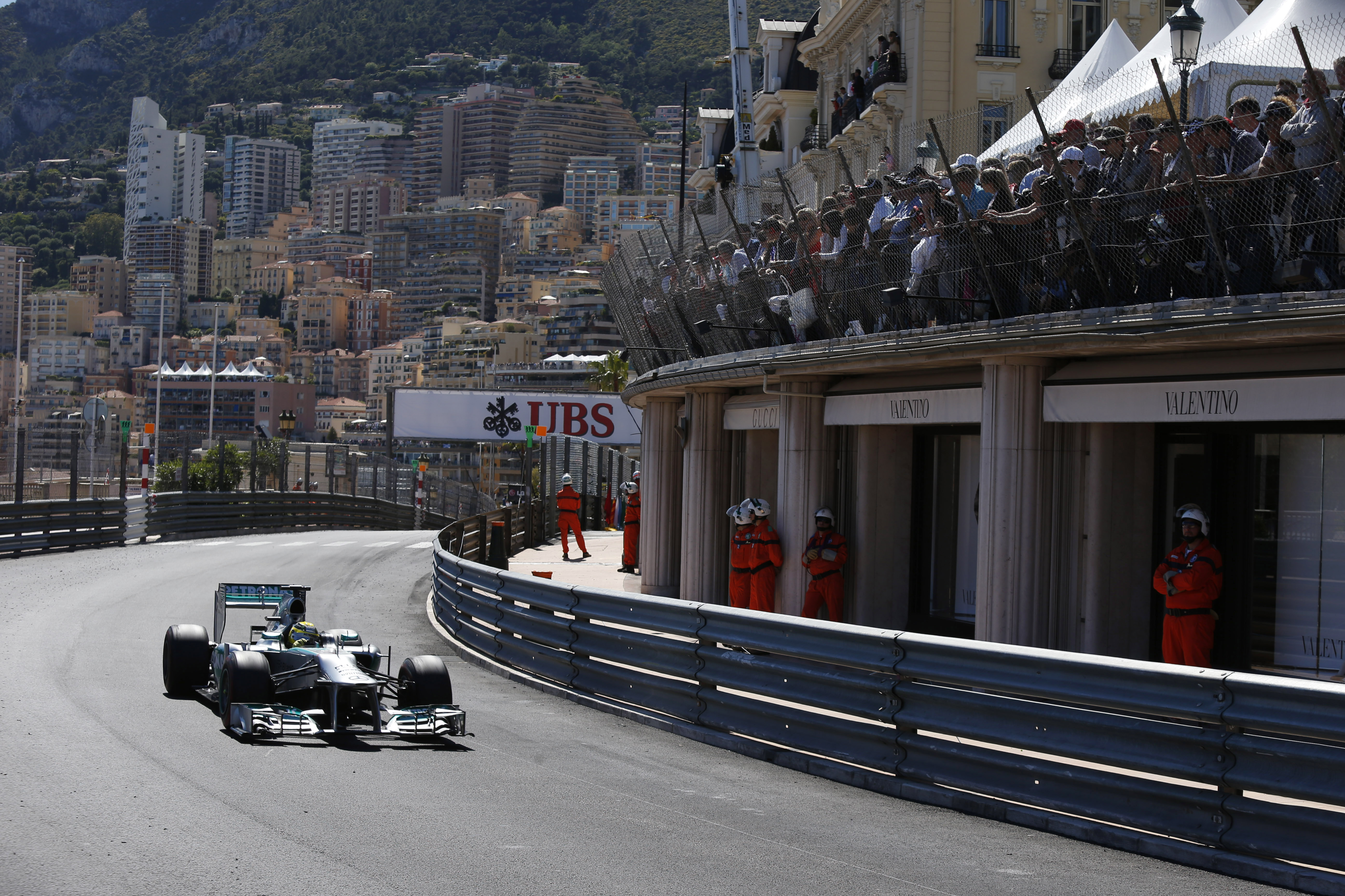 Monte Carlo, Monaco 26th May 2013 Nico Rosberg, Mercedes W04. World Copyright: Charles Coates/LAT Photographic ref: Digital Image _N7T0931